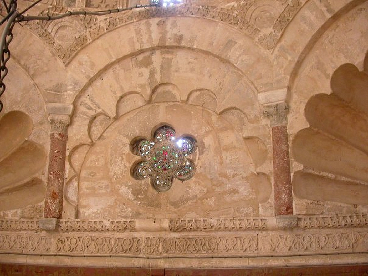 Six-lobed oculus of the mihrab's cupola in the Great Mosque of Kairouan, Tunisia.